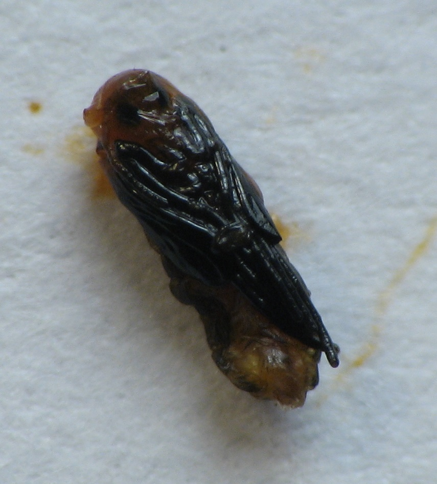 Rhopalomyia clarkei, gall maker midge in goldenrod (Solidago rugosa). Pennypack Restoration Trust, Montgomery County, Pennsylvania, USA.